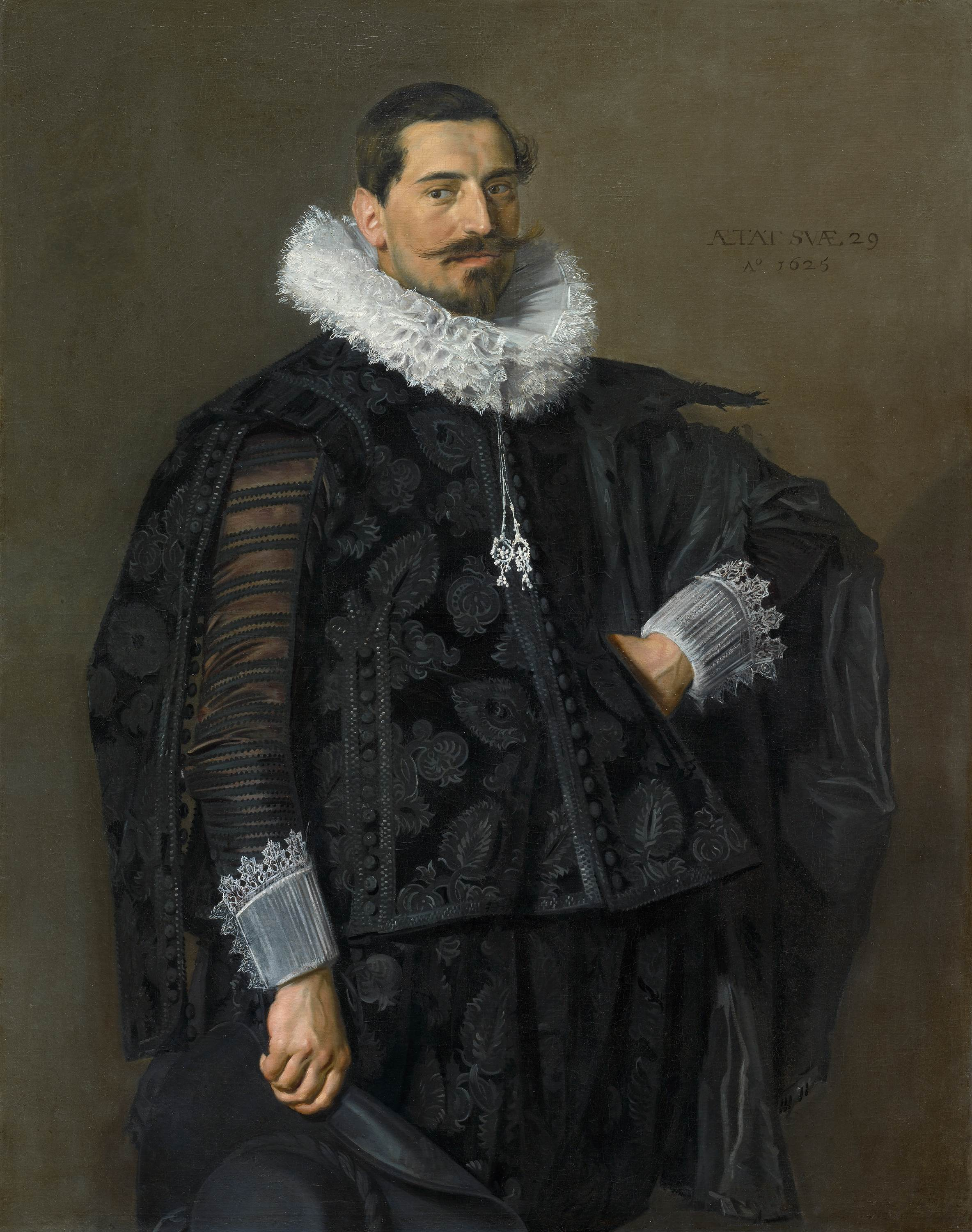 Portrait of Jacob Pietersz. Olycan at three-quarters-length. He stands, turned three quarters right, and looks to the left past the spectator. His right hand holds his hat. His left hand is pressed to his side. He wears a richly-embroided velvet costume with a short cloak and a lace-trimmed ruff with wristbands. The paintings were restored in 2007. During restoration, technical analysis confirmed what had long been thought, that the poorly rendered coats of arms were later additions not by Frans Hals (the pigment Prussian blue was found, but this pigment was first synthesized in 1706). The decision was taken to over paint the arms. Water soluble paints were used so that the over painting may be easily removed at a later date should this be wanted. Pendant of File:Frans Hals - Portrait of Aletta Hanemans - Mauritshuis 460.jpg.